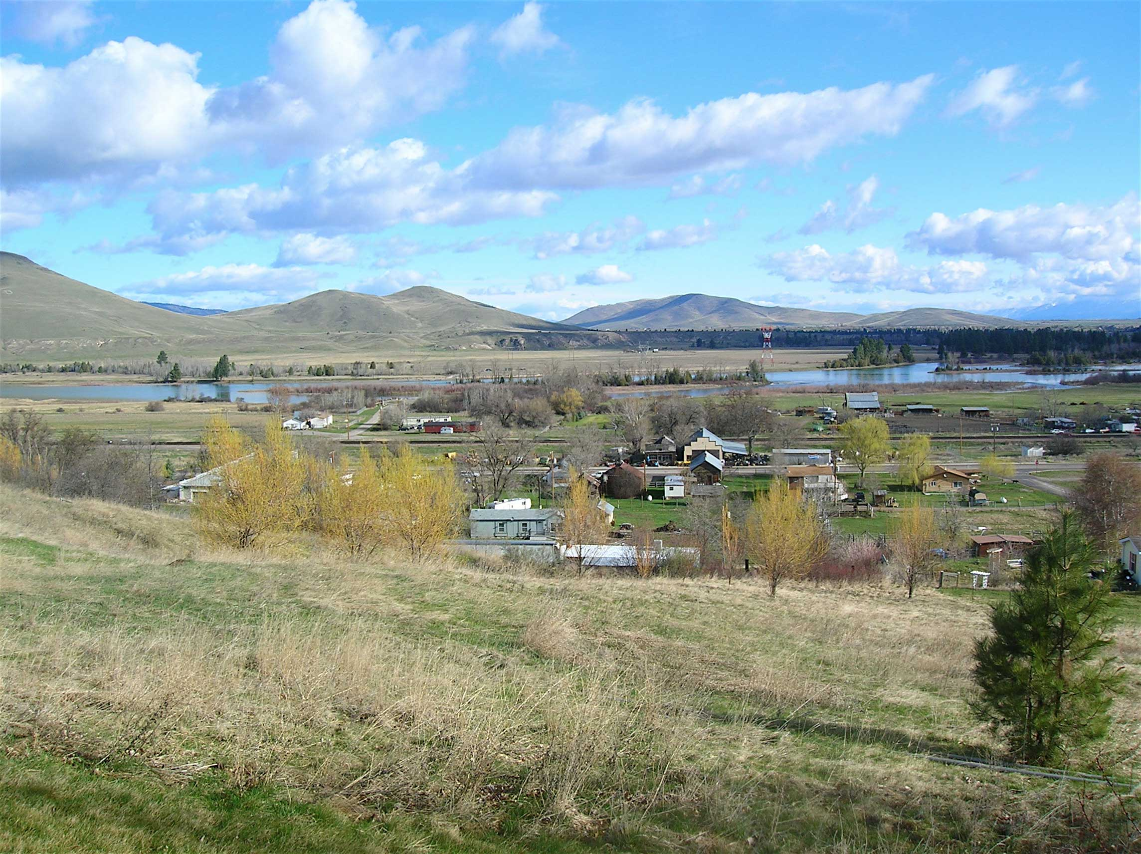 Isaac Rockwell, Dixon Montana, Nikon E4600